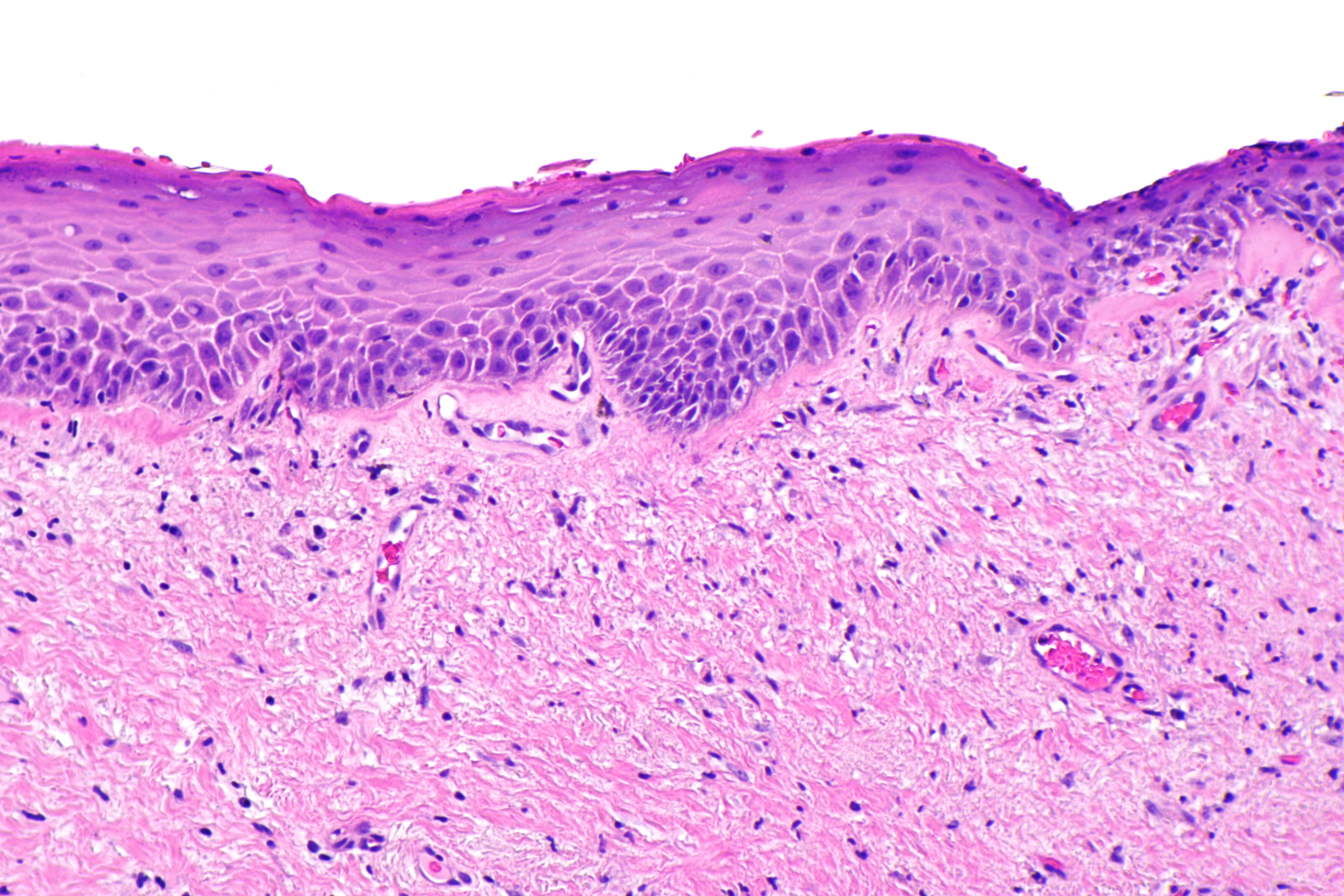 Micrograph showing penile intraepithelial neoplasia, abbreviated PeIN. H&E stain. Resection for squamous carcinoma (not shown in images). PeIN is typically divided into classic PeIN (cPeIN) and differentiated PeIN (dPeIN), as with typical with vulvar intraepithelial neoplasia (VIN). These images show cPeIN, which is putatively believed to be caused by HPV. Related images PeIN - low mag. PeIN - low mag. PeIN - intermed. mag. PeIN - intermed. mag. PeIN - high mag. PeIN - high mag. Parakeratosis & reactive changes - intermed. mag.